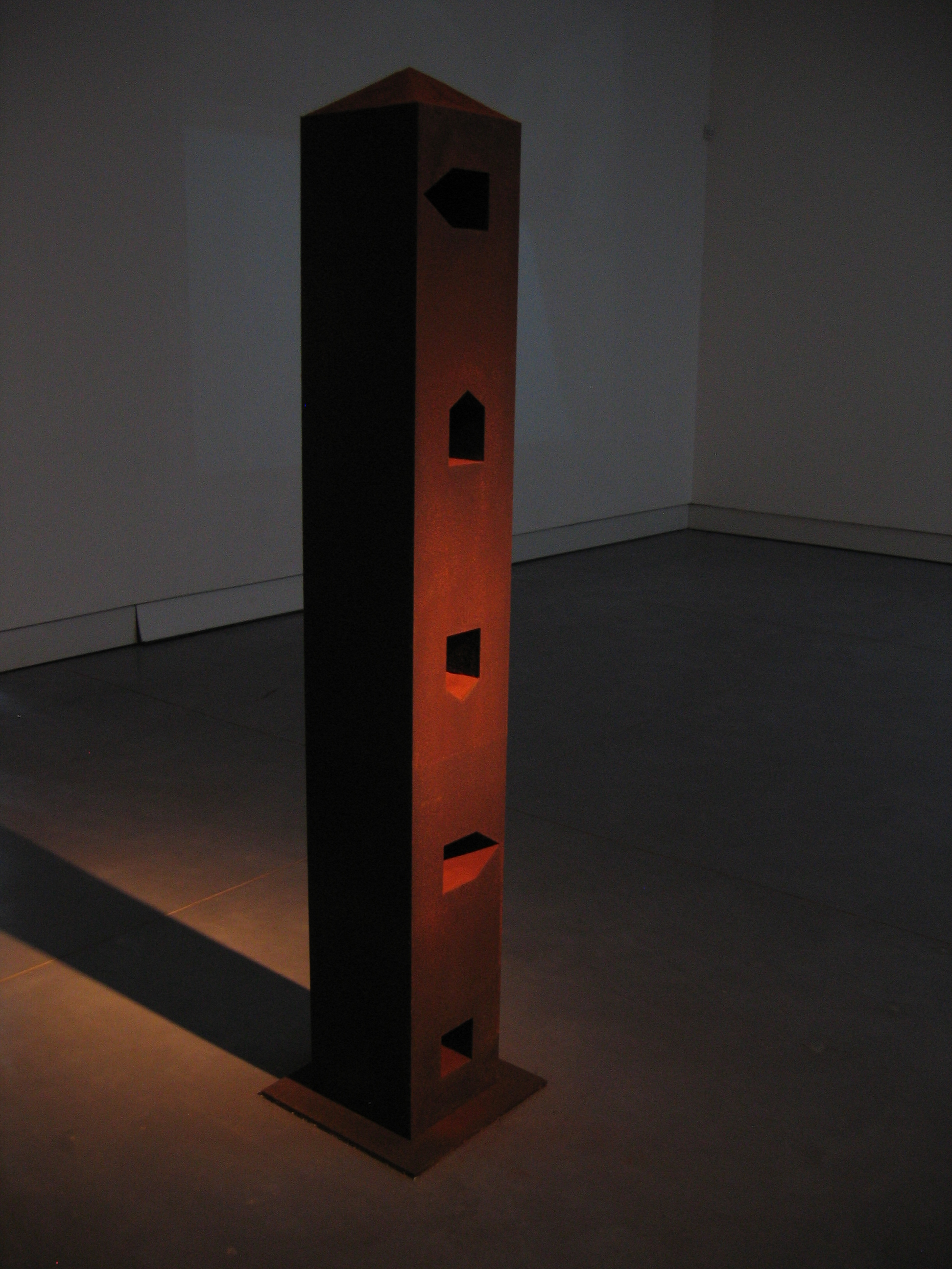 Pillar by Micha Ullman. from the installation "Fence" A single pillar (no.3) out of a series of five, 2005